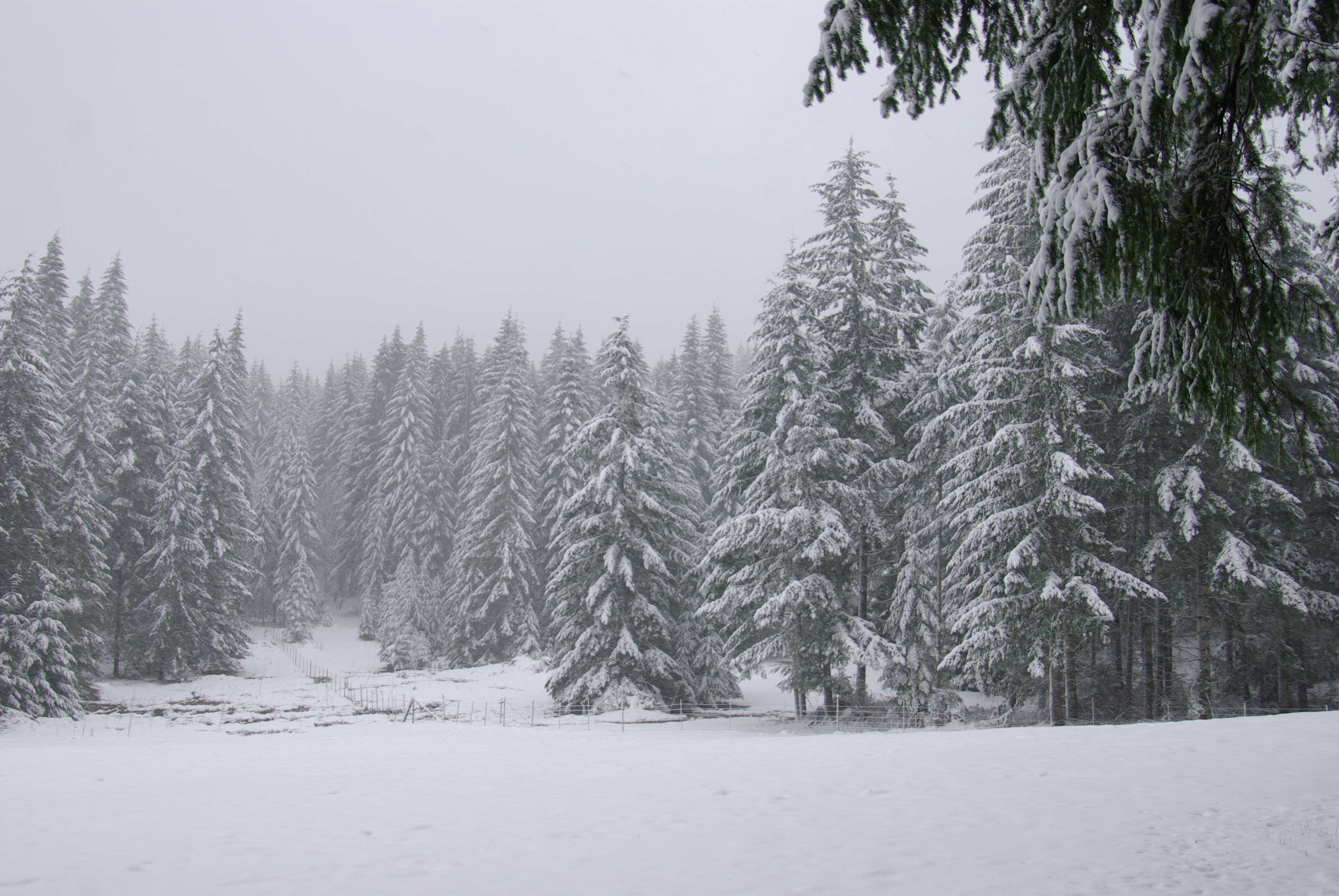 Coastal Douglas Fir in Winter